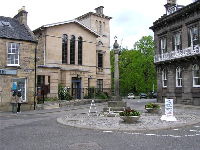 Museum, Elgin It is located at High Street, Elgin Museum is run by The Moray Society and is Moray's oldest independent museum - more at